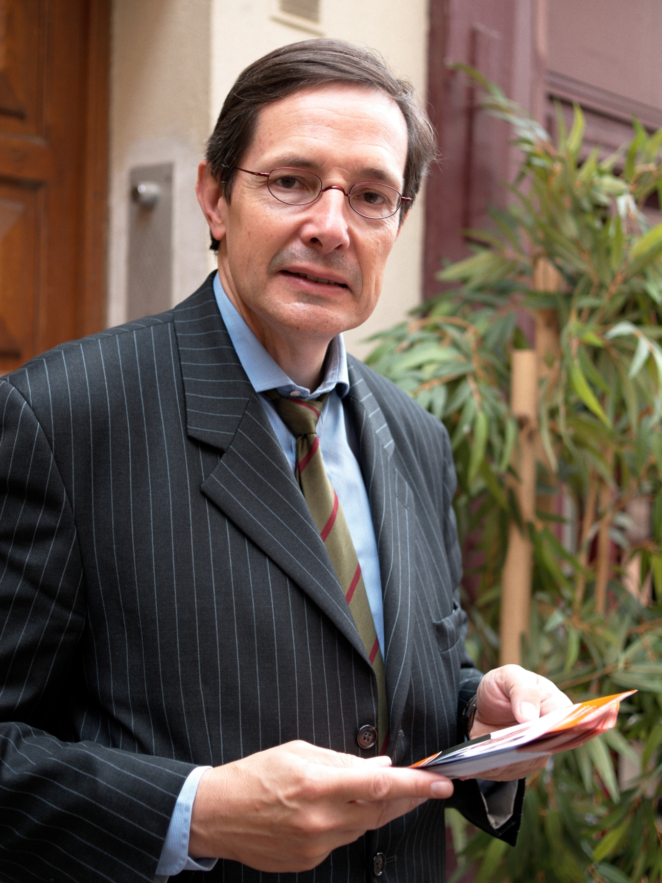 French economist Christian Saint-Étienne during his campaign for the 2007 parliamentary elections.